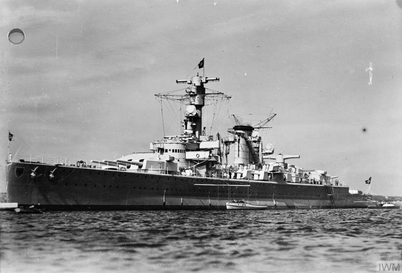 The German heavy cruiser DEUTSCHLAND (later re-named “Lützow”). One of three heavy cruisers of the Deutschland Class (sister ships ADMIRAL SCHEER and ADMIRAL GRAF SPEE). Deutschland was built by the Deutsche Werke shipyard at Kiel, being laid down on 5 February 1929. She was launched on 19 May 1931 and commissioned on 1 April 1933. Following the scuttling of the ADMIRAL GRAF SPEE in the River Plate estuary on 17 December 1939, Hitler ordered the DEUTSCHLAND to be renamed LUTZOW, to avoid the possibility of the loss of a ship bearing the symbolic name of Germany. She was scuttled on 4 May 1945 at Swinemunde after suffering heavy damage from near misses from 'Tallboy' bombs dropped by the RAF. The ship was raised by the Soviets and sunk during weapon tests in 1947.